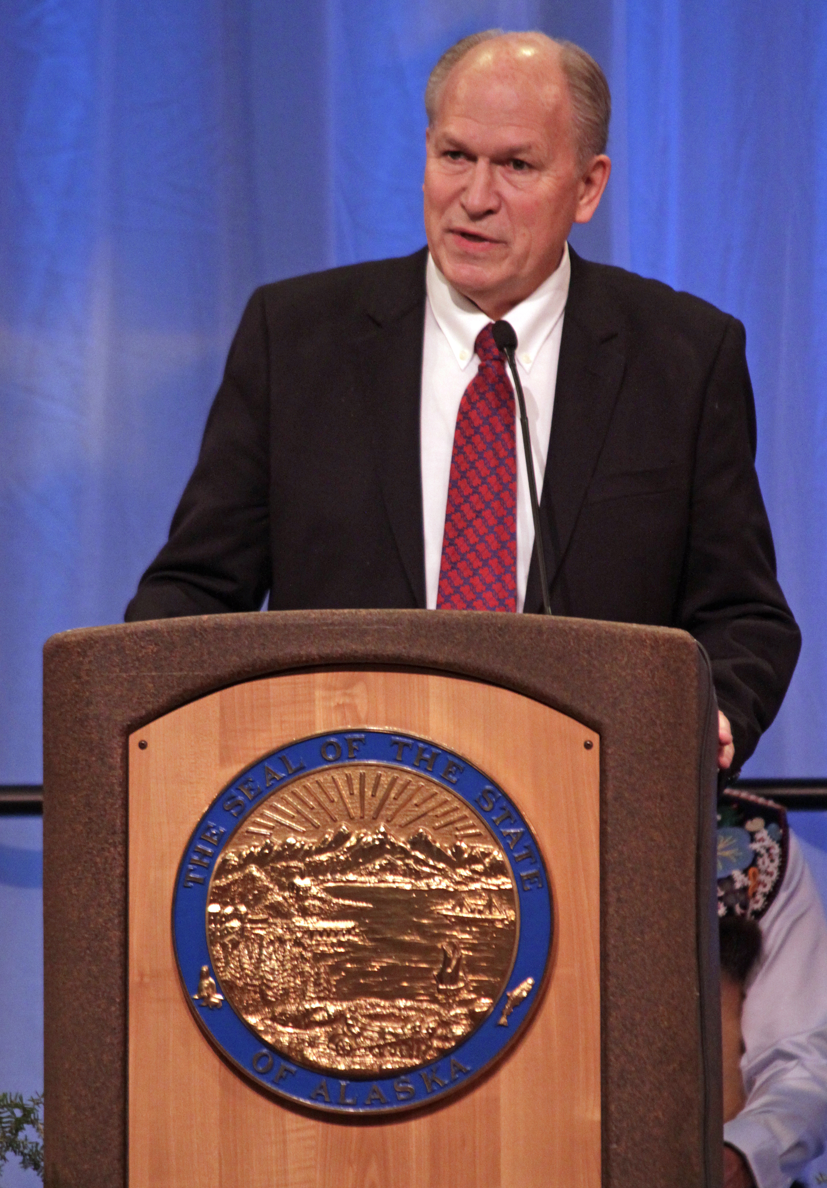 Alaska Gov. Bill Walker delivers his inauguration speech Monday, Dec. 1, 2014 in Juneau, Alaska's Centennial Hall.